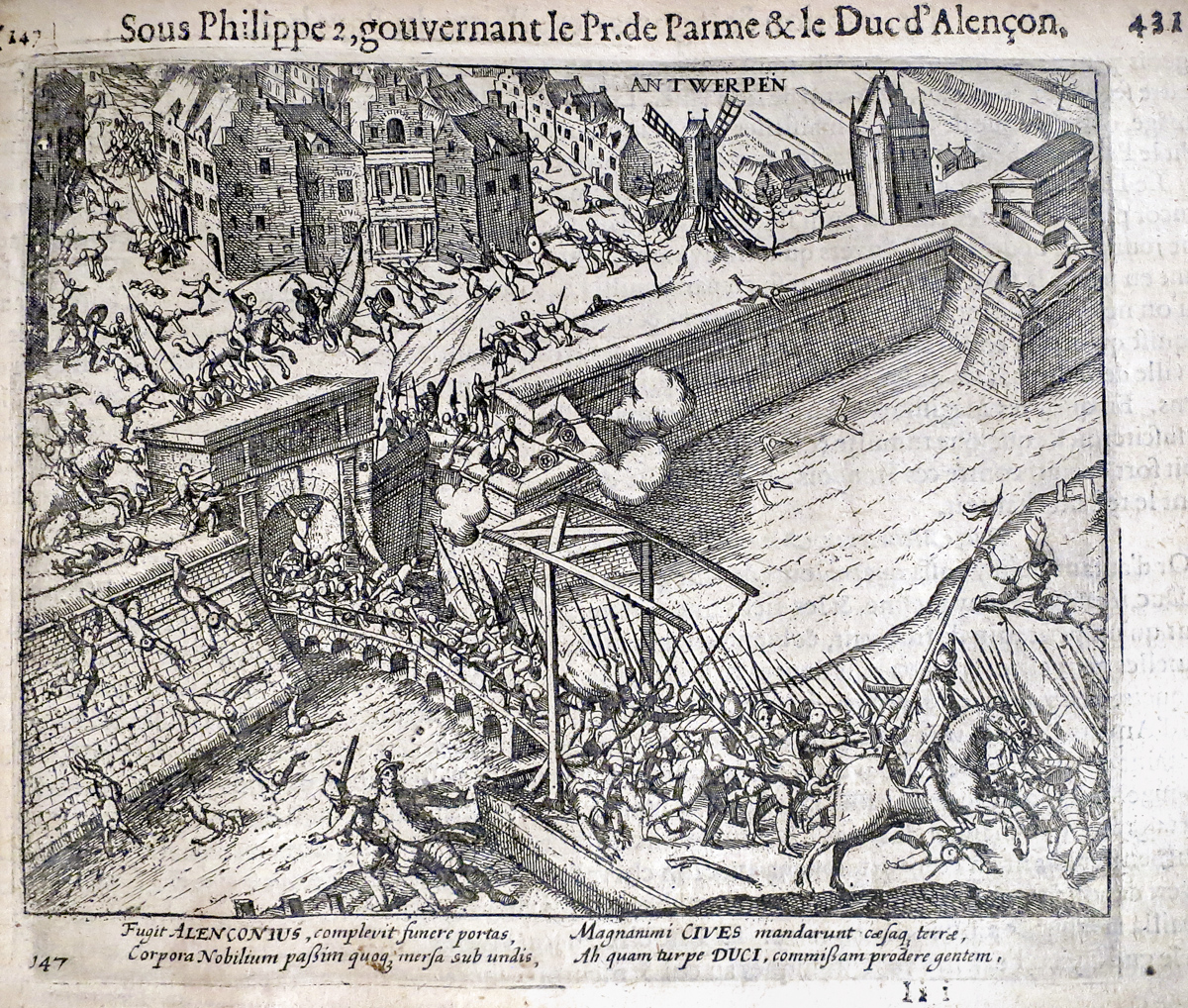 Battle scene in Antwerp. Illustration of a French translation entitled Pourtraits en taille douce, et descriptions des sièges, batailles, rencontres & autres choses advenues durant les guerres des Pays Bas of Guillaume Baudaert's propaganda book against Spanish rule in the Netherlands.